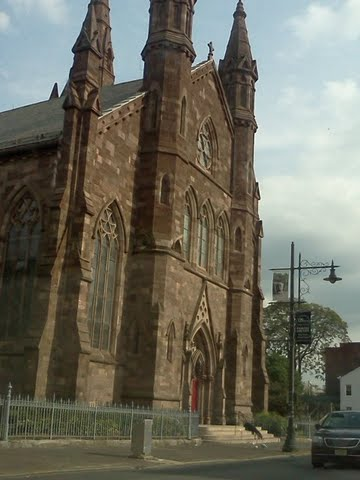 Cathedral of St. John the Baptist